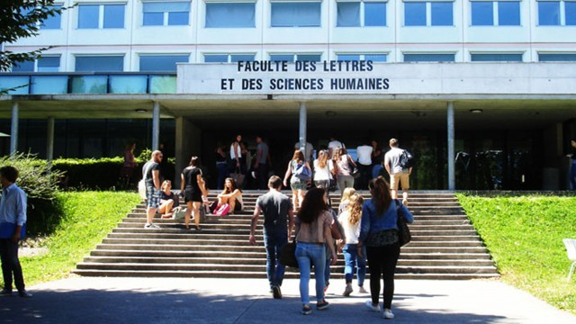 Unilim_Fac_Letter.jpg